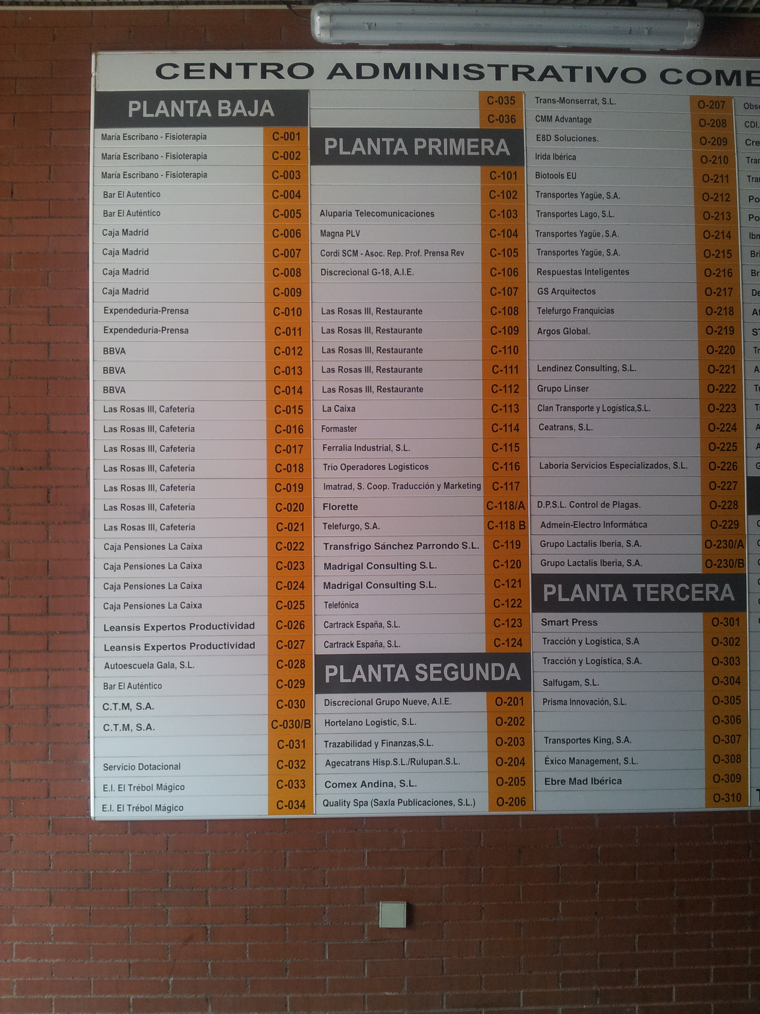 Mercamadrid